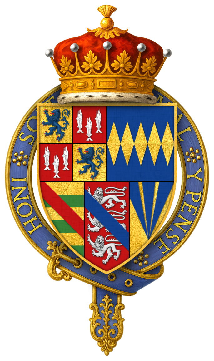 Coat of arms of Sir Henry Algernon Percy, 5th Earl of Northumberland, KG See Northumberland's stall plate, still intact, within its original stall at St. George's Chapel - arms are quarterly of five: 1, or a lion rampant azure (Percy) quartering gules three lucies argent (for Lucy 2, azure five fusils conjoined in fess or (Percy ancient); 3, barry of six, or and vert, a bend gules (Poynings); 4, gules three lions passant argent debruised by a bendlet azure (FitzPayn); 5, or three piles conjoined at the base azure (Bryan).